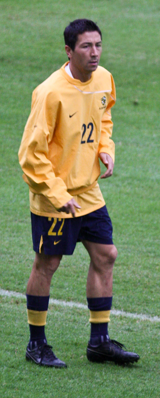 Jacob Burns after a training session at ANZ Stadium the day before a World Cup Qualifying game against Uzbekistan.